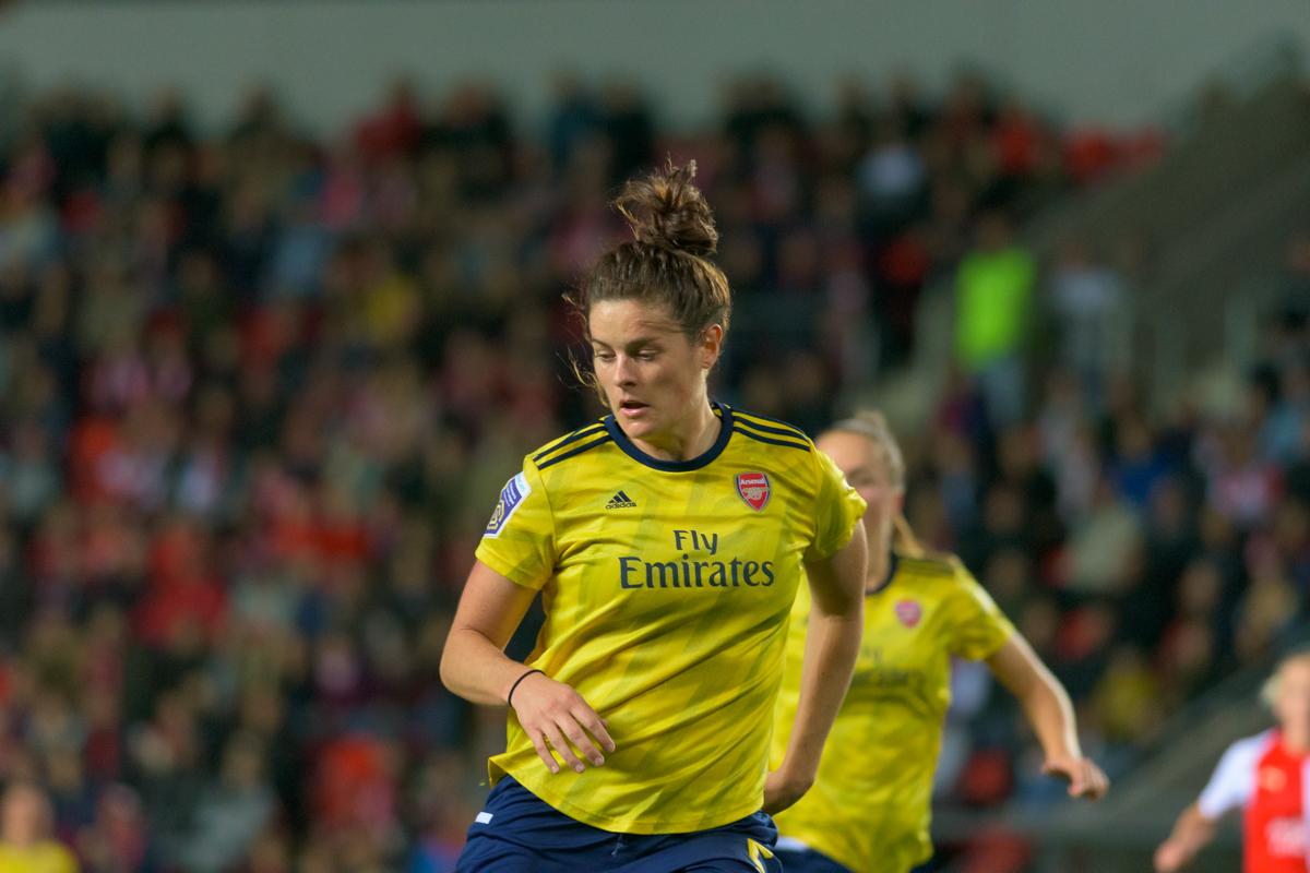 Jennifer Beattie during the match vs Slavia Praha (women), October 2019